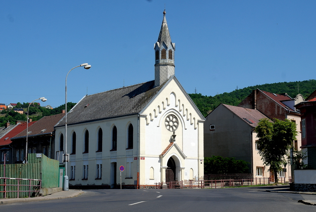 Evangelical Church of the Lord Jesus, Žižkova str. 352/371, Horská str., Trmice, district Ústí nad Labem. Built in the beginning of the 20th century, the bell from 1907.